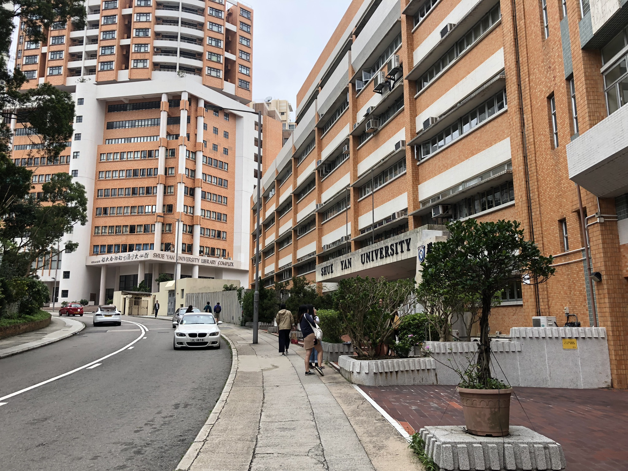 Looking across front entrance of university towards library